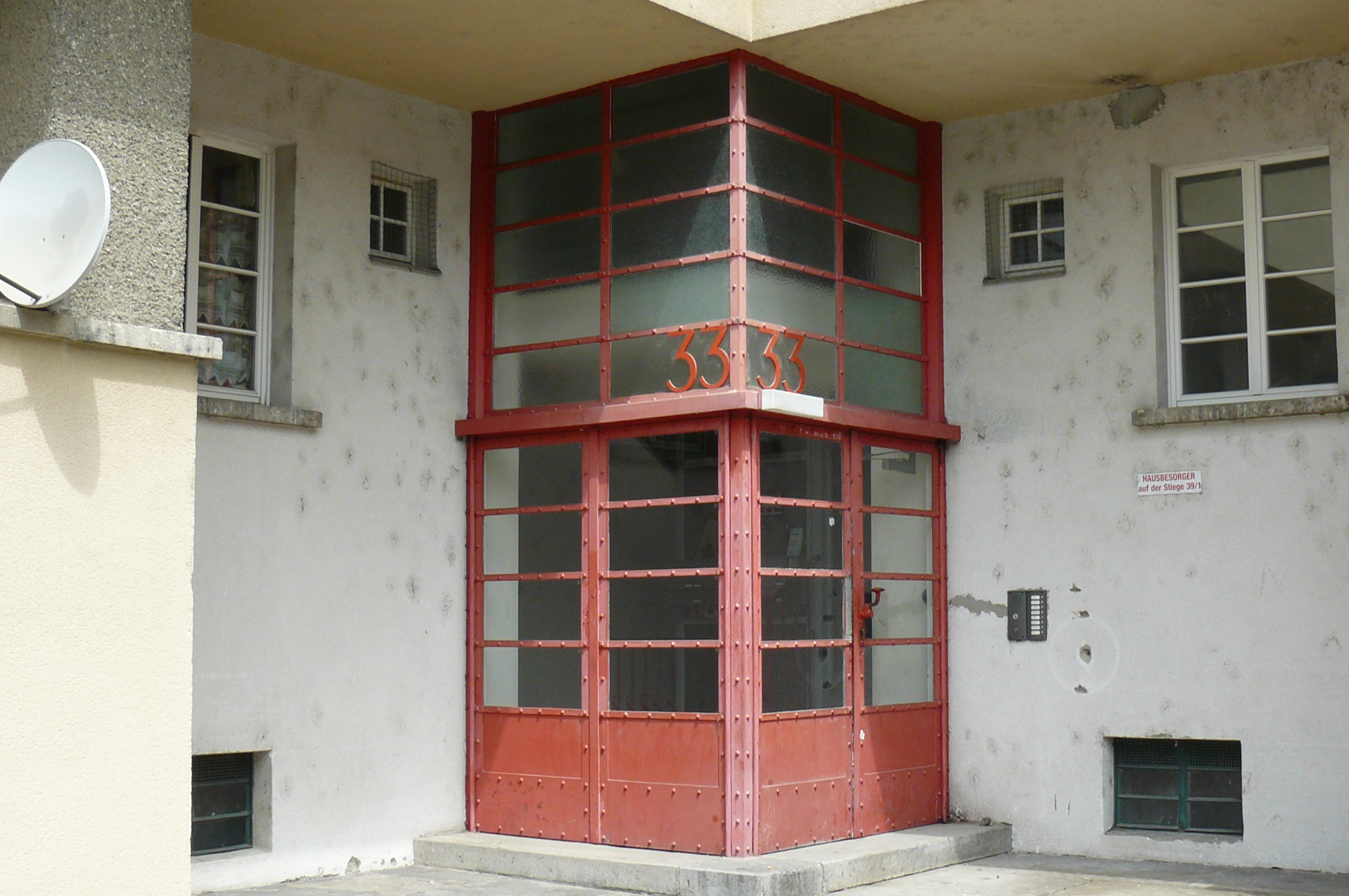 Karl-Marx-Hof Vienna, detail.